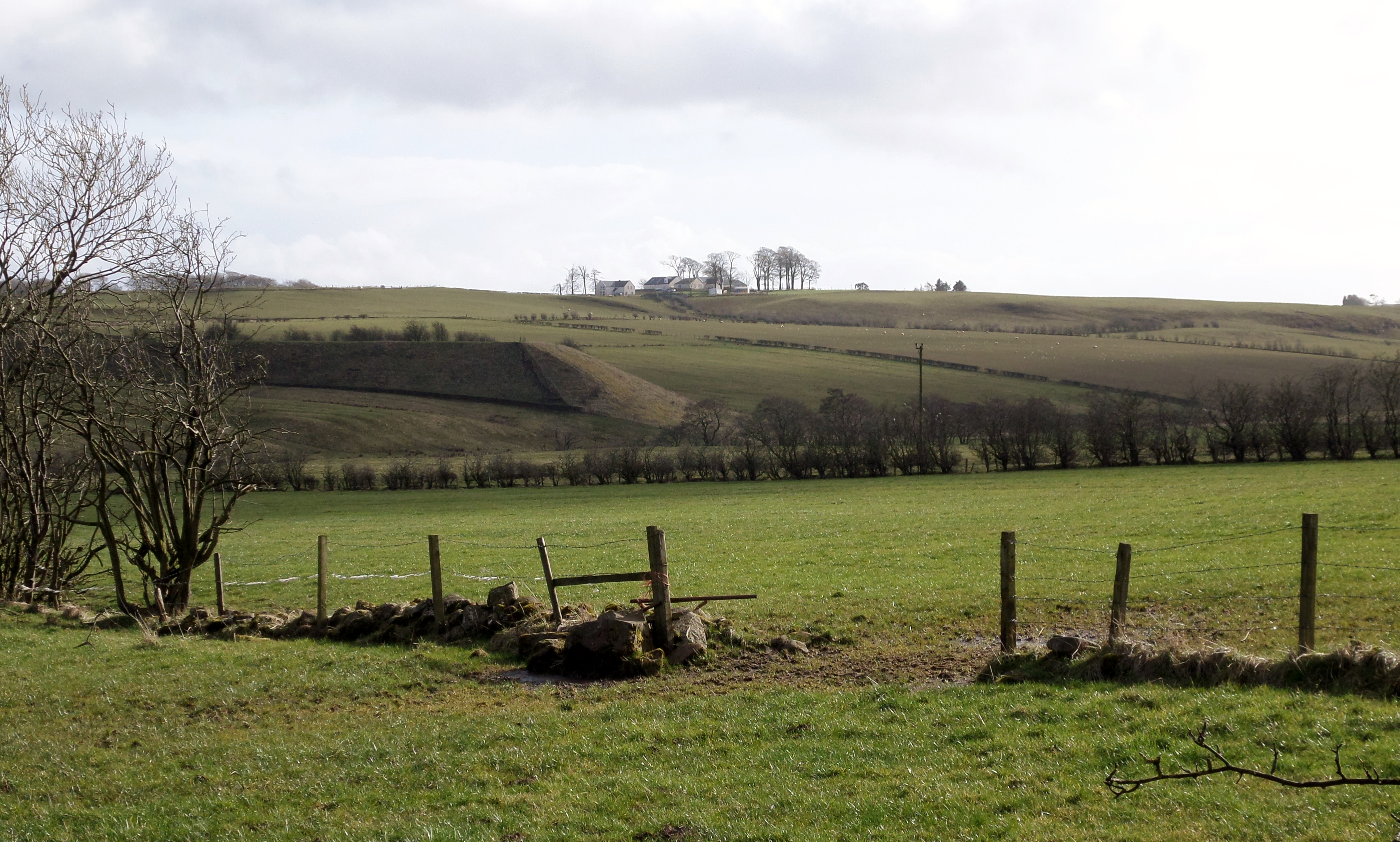 Site of the Gree Viaduct, Lugton, North Ayrshire, Scotland.